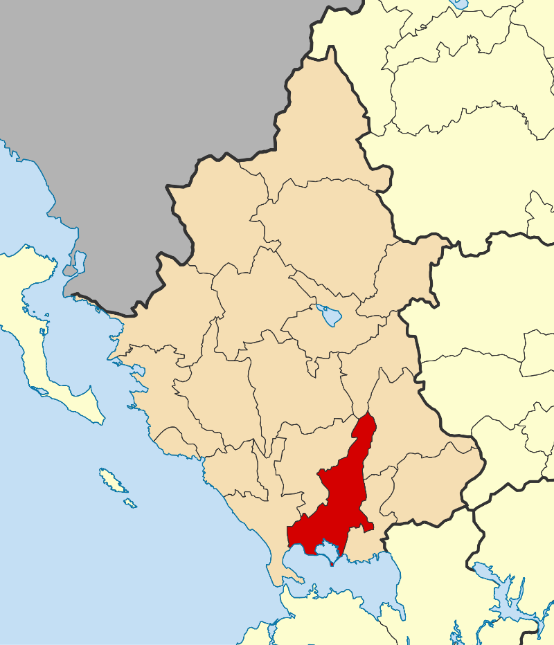 Locator map for Arta municipality in Greek region Epirus (2011)